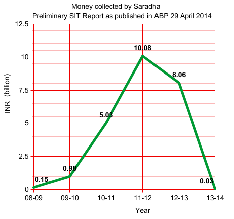 this is the money collection graph for saradha group of comp from 2008 to 2014, the primary source is SIT report to supreme court of india, it has been published in Anandabazar Patrika on 29 April 2014